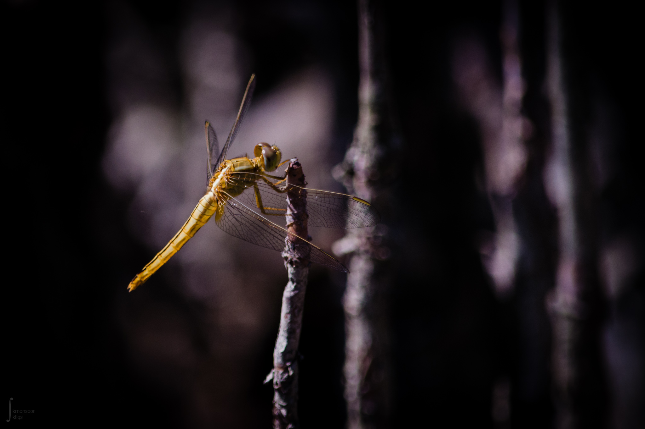 Wandering glider from coastal Bangladesh, found at Nijhum island, Hatiya.